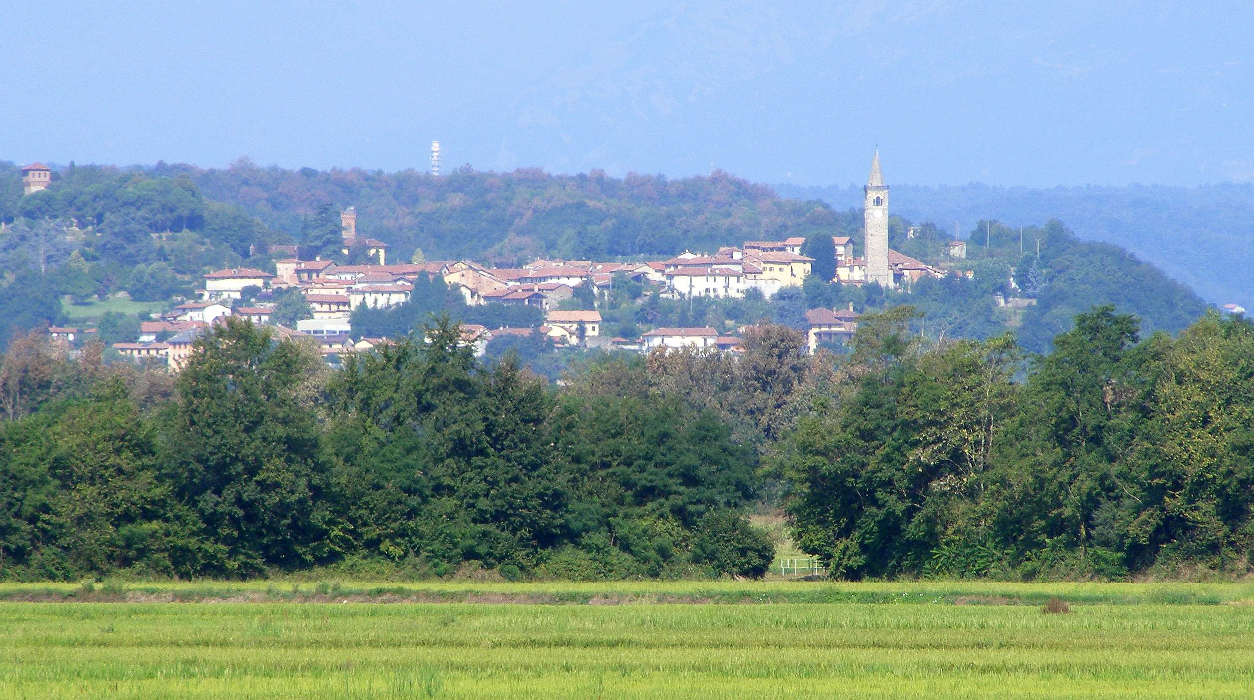 Salussola (BI, Italy): panorama from San Daminano di Carisio